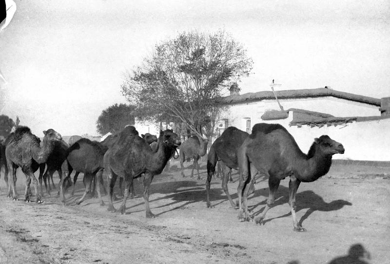 Верблюды на улице Чиназа 1890 г.